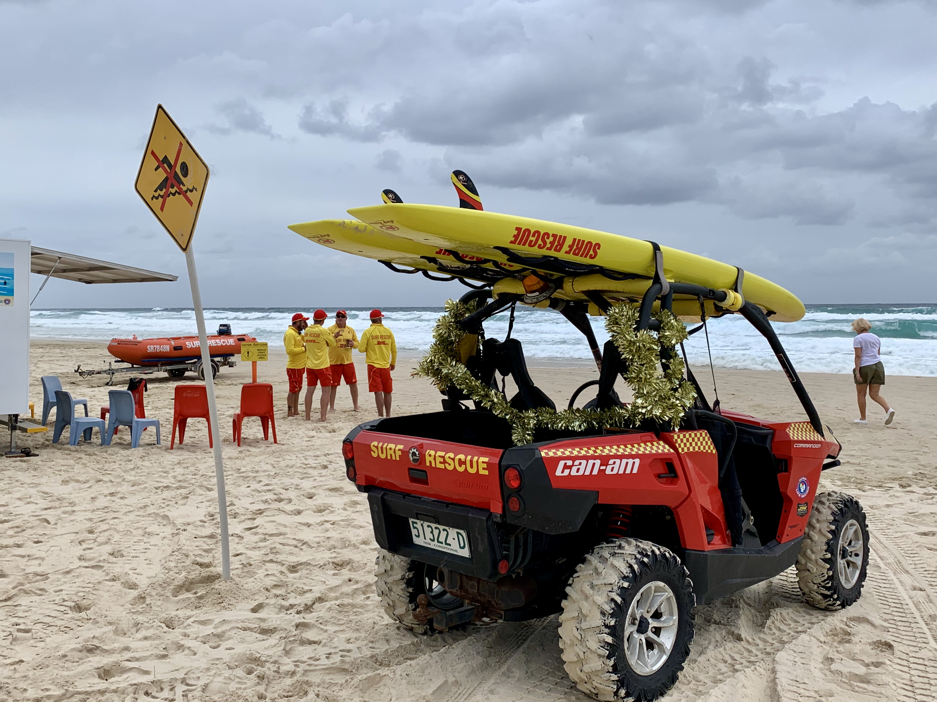 Salt Surf Life Saving Club, Salt Beach, Kingscliff NSW